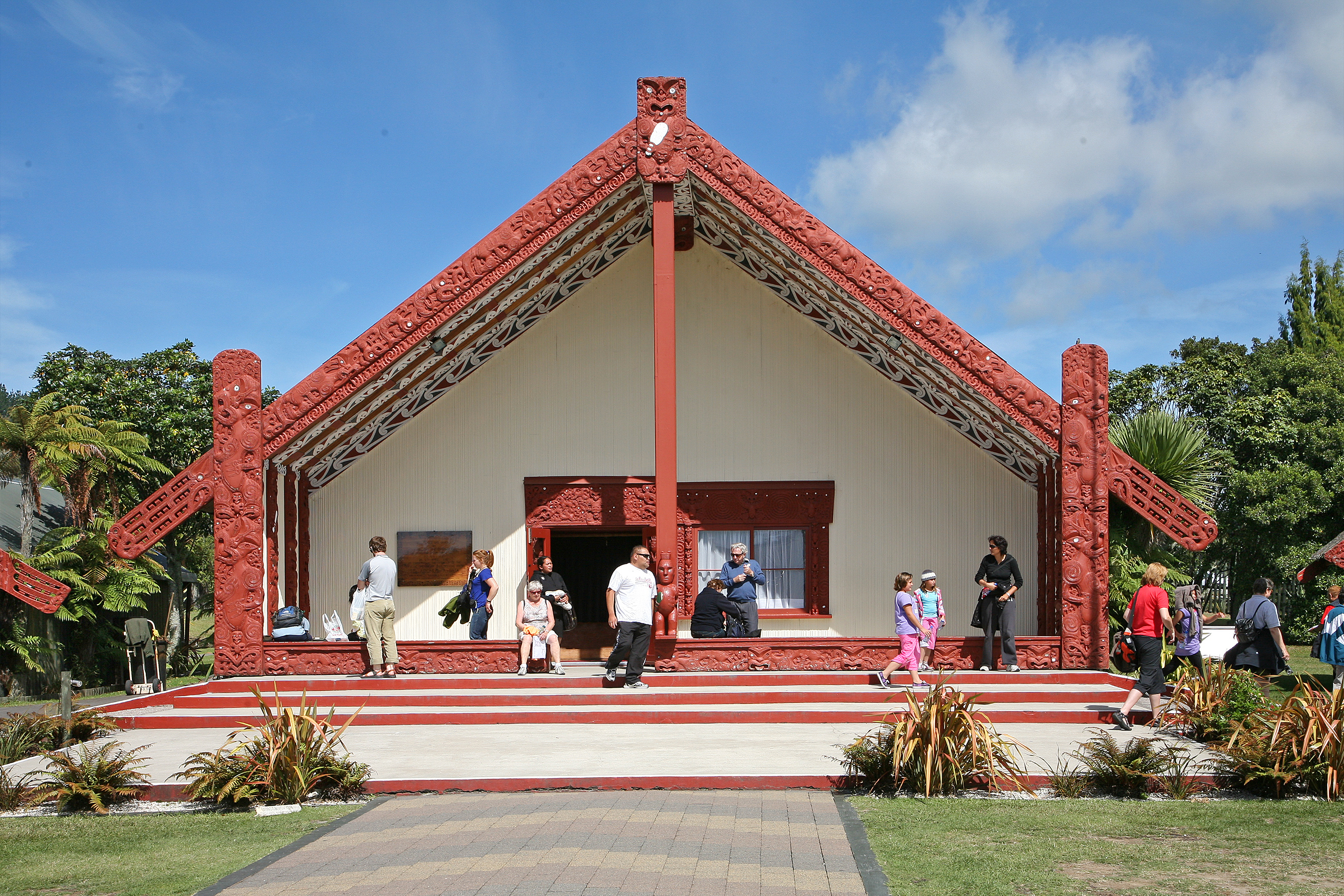 Rotorua, Maori municipality Whakarewarewa: Hous of Presents Rotowhio-Marae.